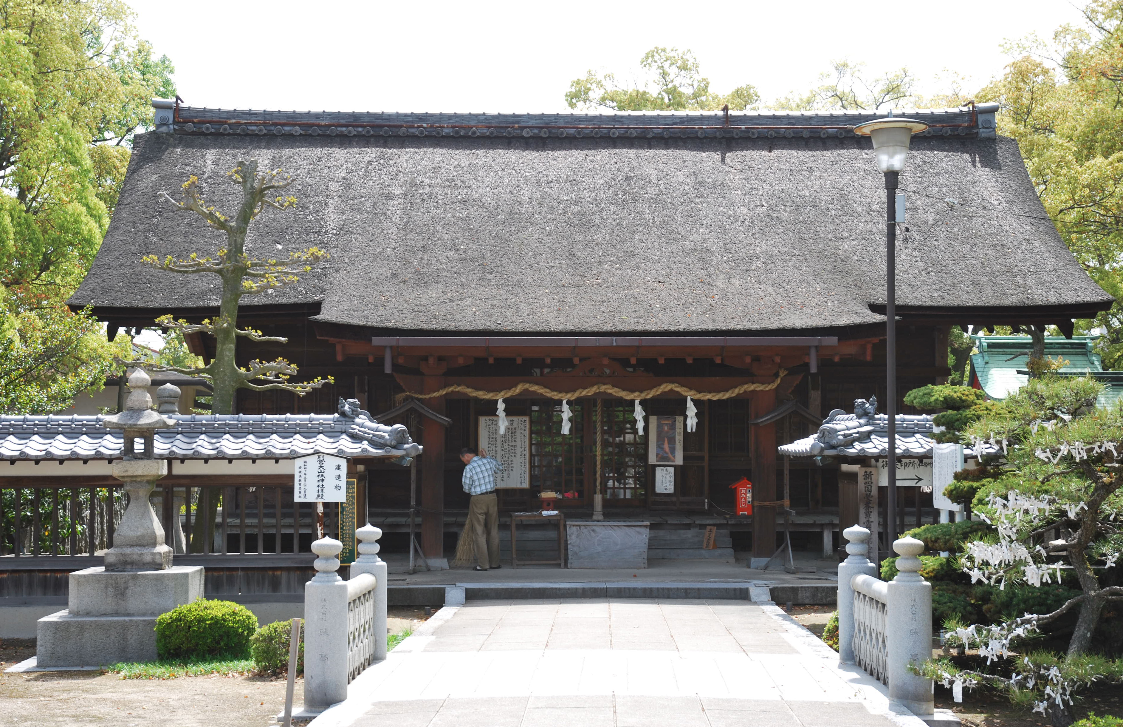 Front shrine, Bekku Ōyamazumi-jinja